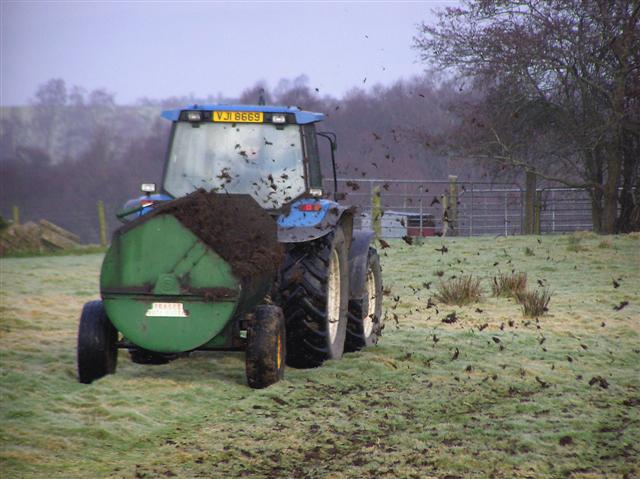 Manure spreading, Cavanacaw. Zooming in for a closer look.